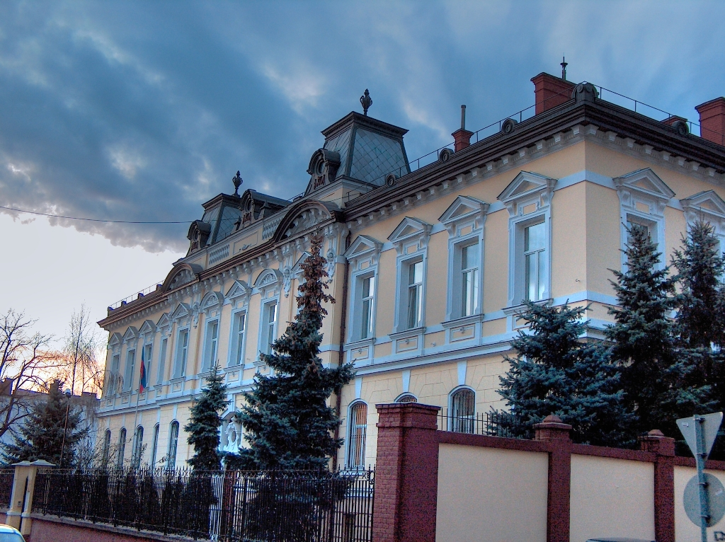 Consulate General of Russia in Debrecen